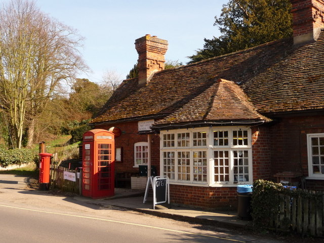 Clifton Hampden: the post office An attractive, traditional village store including sub-post office. From this angle, the entrance is not visible; it's hidden by the bay window. Note the traditional red phone box outside, along with an Elizabeth II-reign postbox.